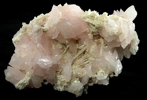 Calcite (Var.: Manganoan Calcite), Aragonite Locality: Dal'negorsk (Dalnegorsk; Tetyukhe; Tjetjuche; Tetjuche), Primorskiy Kray, Far-Eastern Region, Russia (Locality at ) Size: 11.9 x 9.2 x 4.8 cm. A very unusual Dal’negorsk manganoan calcite, in that the crystals are intergrown with straw-like crystals of white aragonite. The calcites have pretty pastel pink color and fine luster, and are in the form of gently curved rhombohedrons.